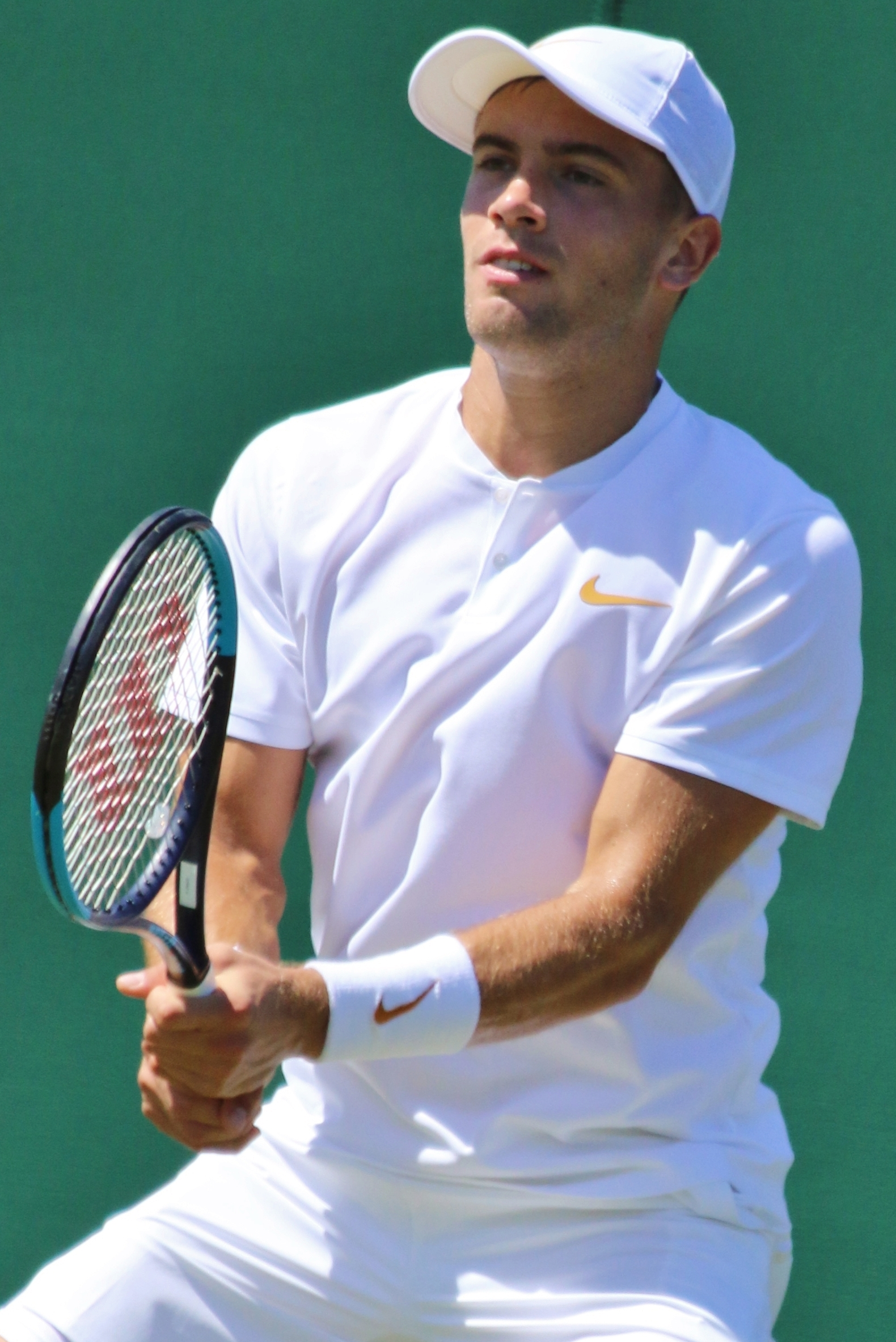 Coric WM18 (54)